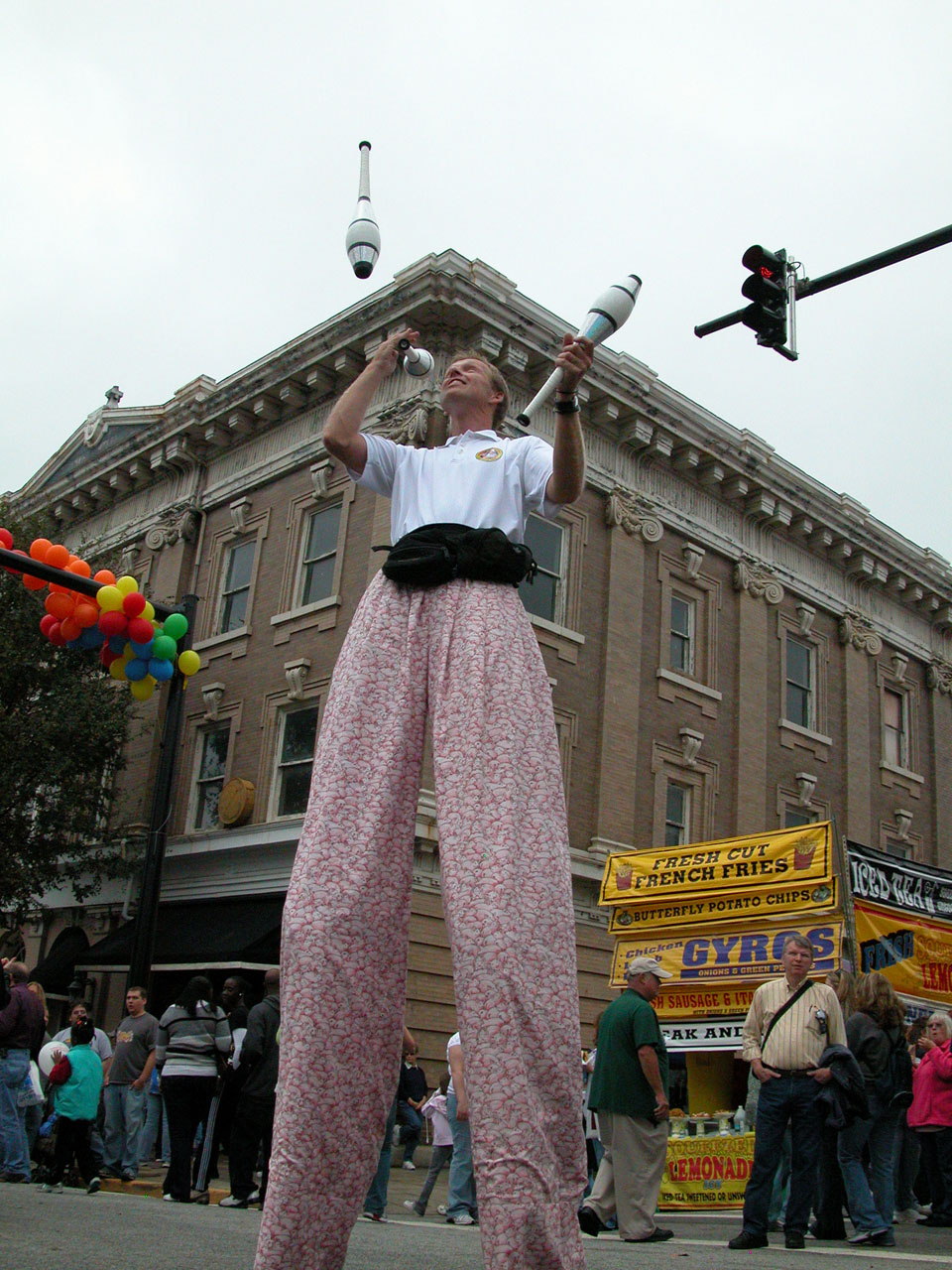 Lexington Barbecue Festival 2008, street juggler working his craft.